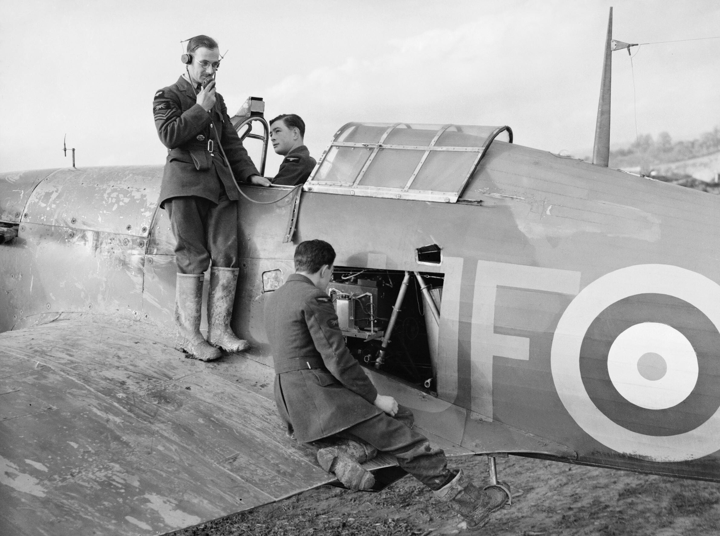 Radio mechanics testing the VHF transmitter/receiver in a Hawker Hurricane Mk I of No. 601 Squadron RAF at Exeter, Devon, November 1940. Radio mechanics testing the VHF transmitter/receiver in a Hawker Hurricane Mark I of No 601 Squadron RAF, at Exeter, Devon.